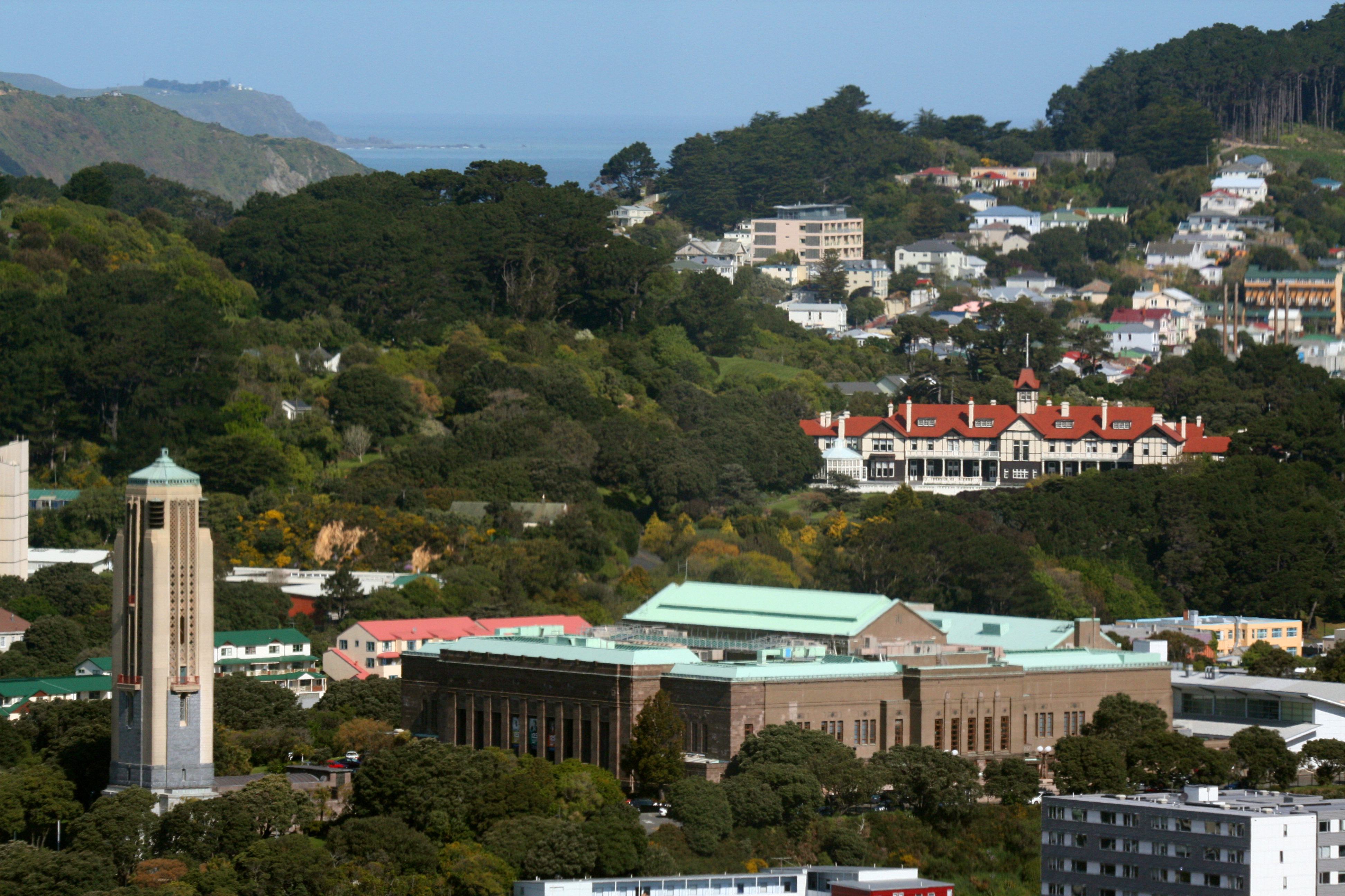 Landscape showing four historic buildings. The National War Memorial (New Zealand) (Carillon lower left), New Zealand Dominion Museum building (copper-roofed building lower middle and lower right), Government House, Wellington (Edwardian building right middle) and Baring Head Lighthouse (on ridge upper left in far distance). Taken from the Victoria University of Wellington's Rankin-Brown building on the Kelburn campus.